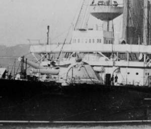 Foreward 12-inch guns of British battleship HMS Ocean. For full image see Image:HMS Ocean (Canopus-class battleship).jpg